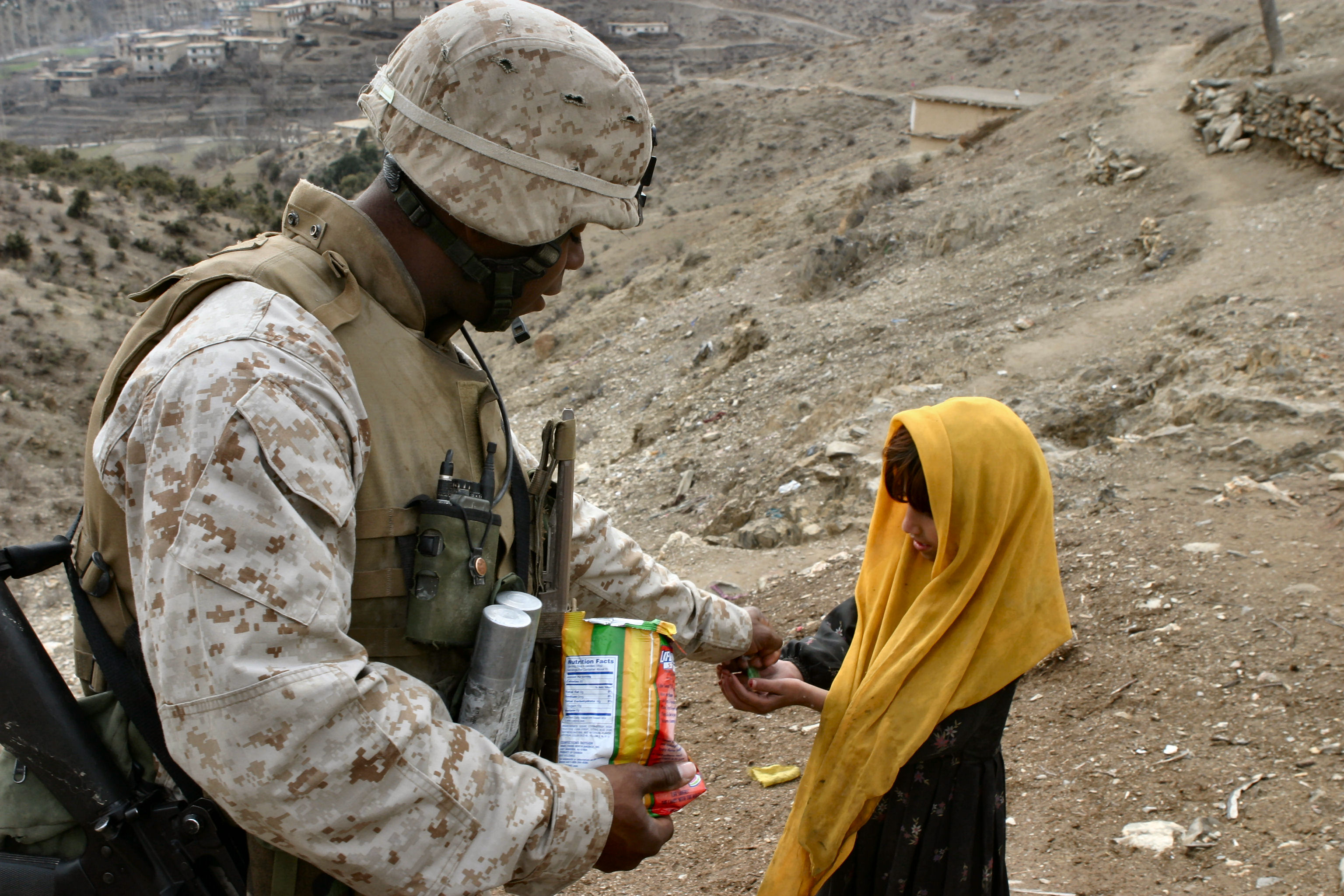 KHOWST PROVINCE, Afghanistan (March 8, 2005) - U.S. Marine 1st Lt Nick Ramseur, Platoon Commander with Weapons Company, 3rd Battalion, 3rd Marine Regiment gives a local Afghan girl some candy during a security operation in Khowst Province, Afghanistan, on March 8, 2005. 3/3 is conducting security and stabilization operations in support of Operation Enduring Freedom. U.S. Marine Corps photo by Cpl. James L. Yarboro